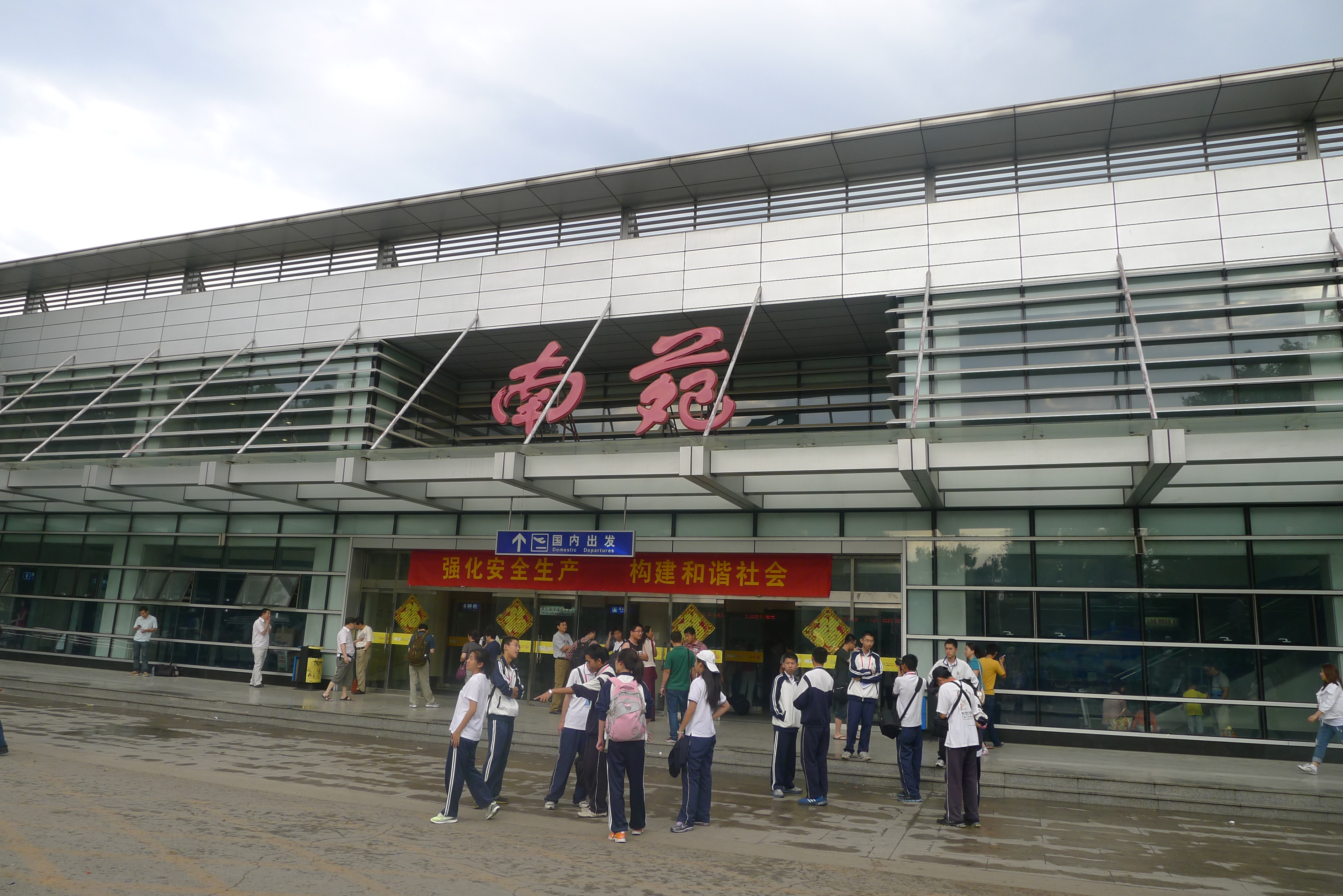 Terminal of Beijing Nanyuan Airport (ZBNY / NAY)